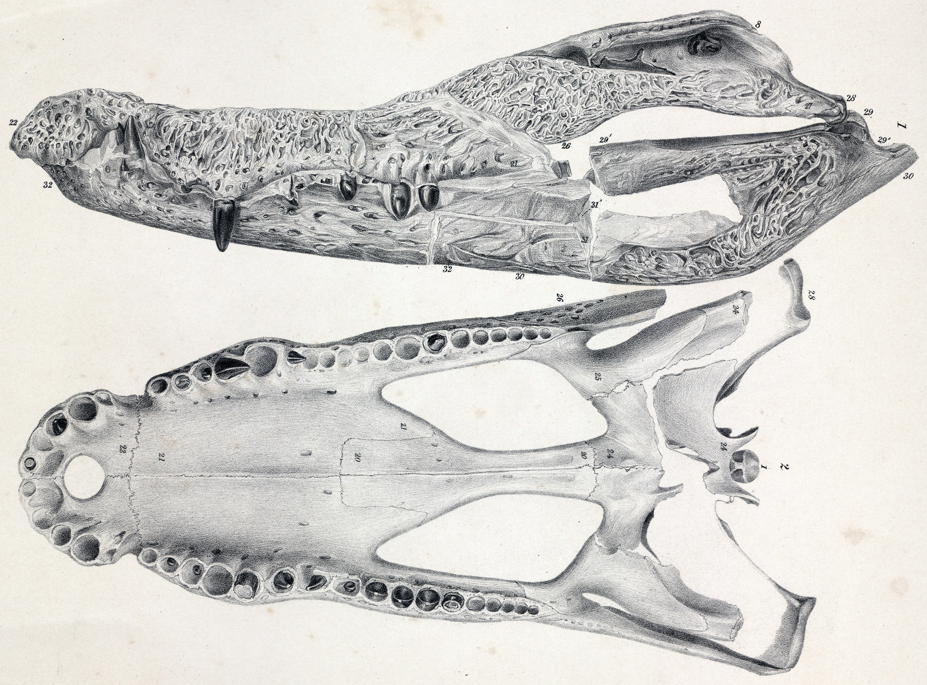 Crocodilia.—Crocodilus Hastingsiæ (also spelled Crocodylus hastingsiae or hastingsae), now Diplocynodon hantoniensis, half the nat. size. Fig. 1. Side view of the skull. Fig. 2. Under view of the cranial and facial parts of ditto.